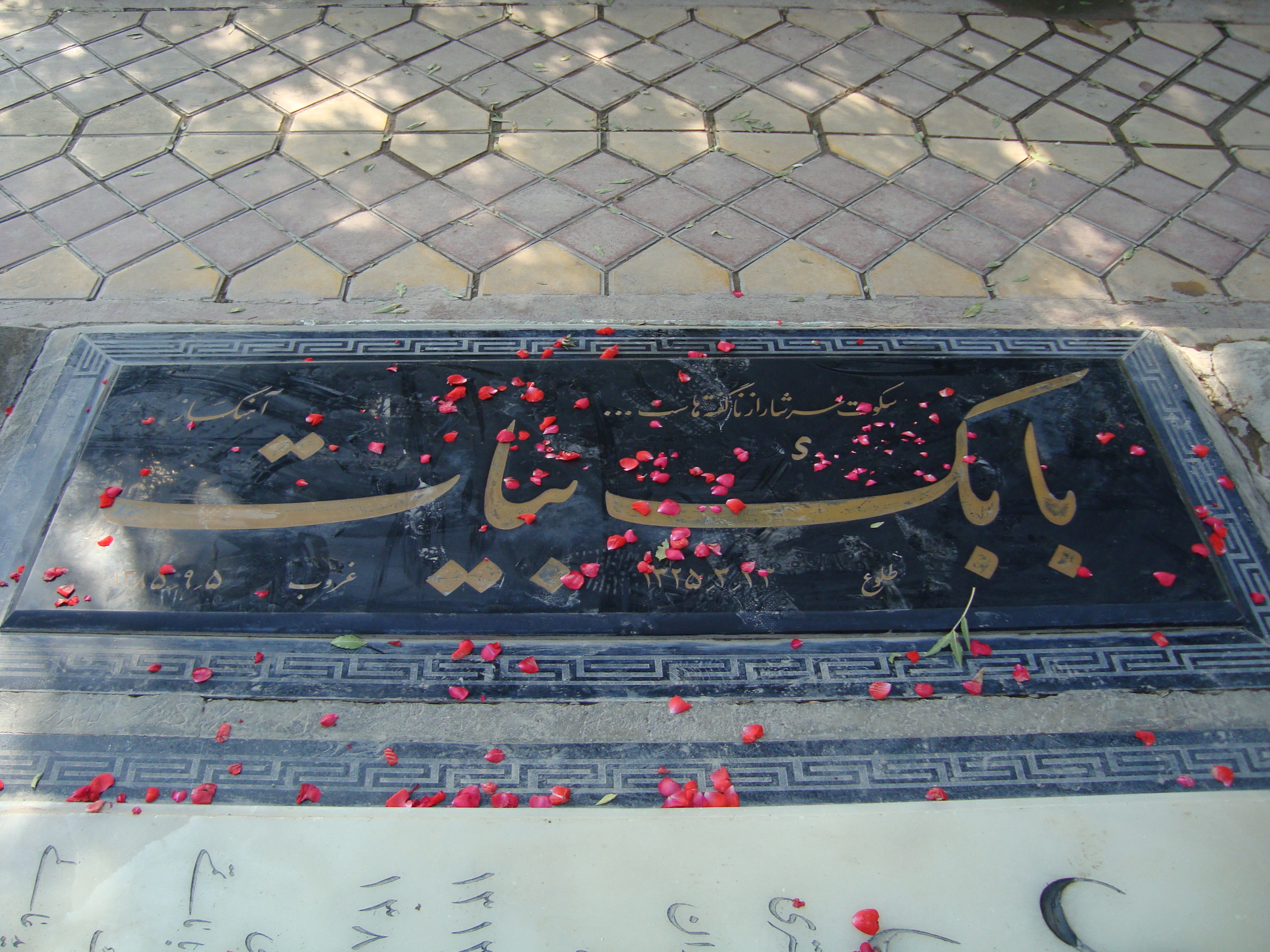 tomb of Babak Bayat, Beheshte zahra cemetery, Tehran